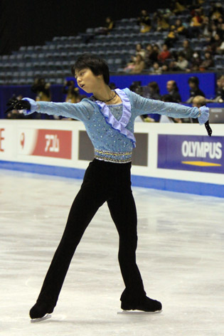 Yuzuru Hanyu during his free program at the 2009-2010 Junior Grand Prix Final.